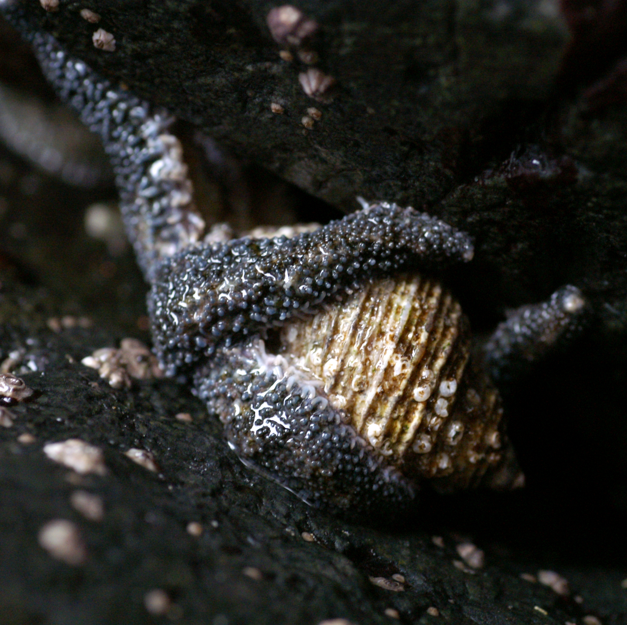 Unwelcome embrace between Nucella lima (the file dog winkle) and the starfish Leptasterias hexactis